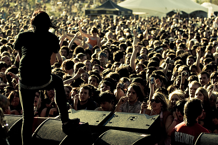 Photo of Escape The Fate's Craig Mabbit during Las Vegas concert Extreme Thing 2008 at Desert Breeze Skate Park. To view the rest of the photos from this set please see URL: Photos of Escape The Fate by PhotoFM Las Vegas Native Photographer Fred Morledge, creator/owner of captured this image on March 29, 2008.